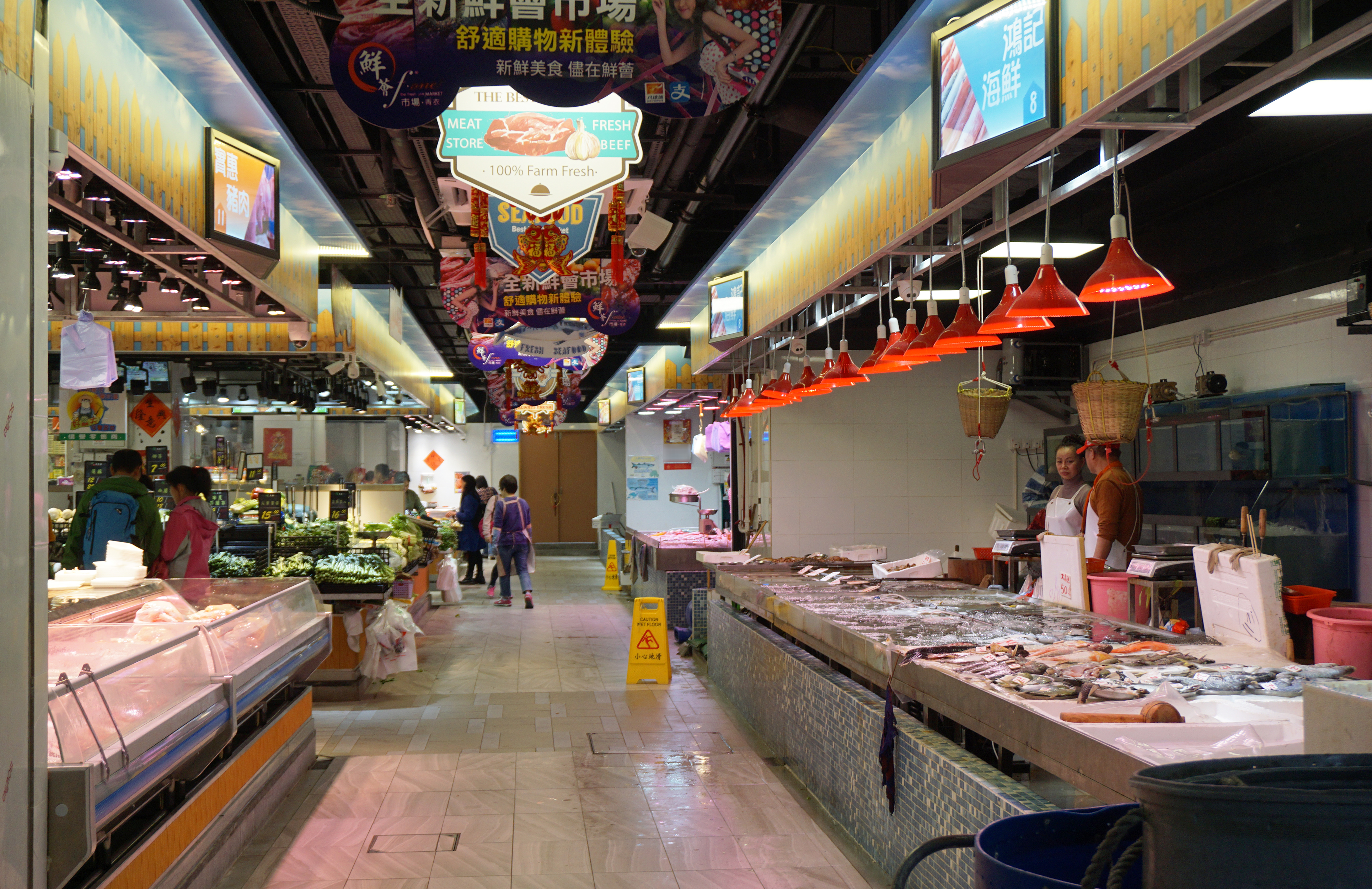 Cheung Hang The Fresh One Market in Tsing Yi, Hong Kong.